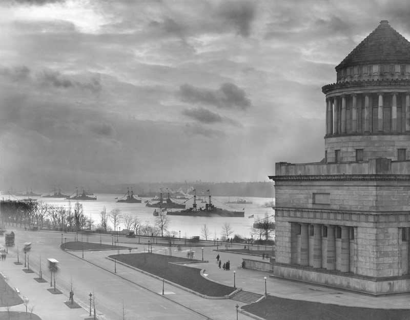 A fleet of U.S. Navy Battleships sail past Grant's Tomb in Manhattan during World War I.